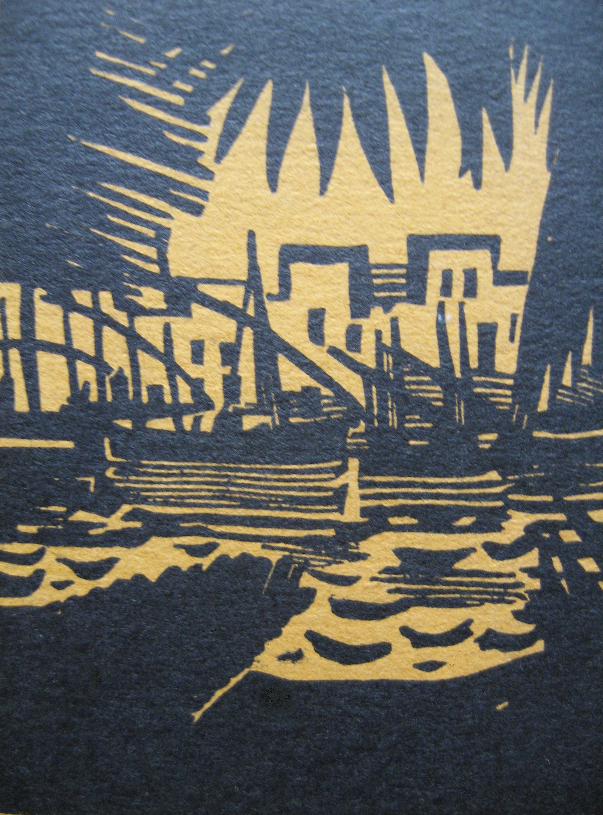 Original woodcut by painter-illustrator Louis-Robert Antral (1895-1939) contained in Henry de Monfreid's book Le Chant du Toukan (Fayard, 1937). Antral's 27 woodcuts depict various scenes and landscapes of the Red Sea at that time, such as Moka, Djibouti, Arab dhows, etc. or episodes of the life of Monfreid in the Red Sea or Ethiopia.